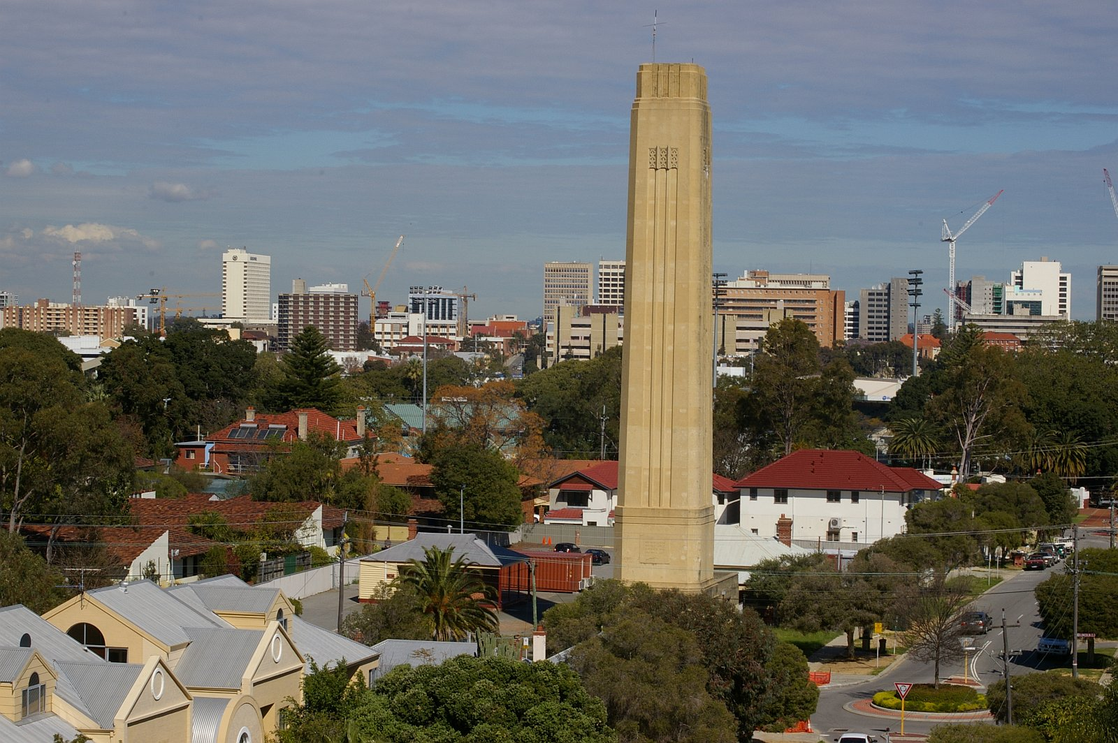 Highgate, Western Australia Lincoln Street Vent, used by the WA police for their first radio mast.